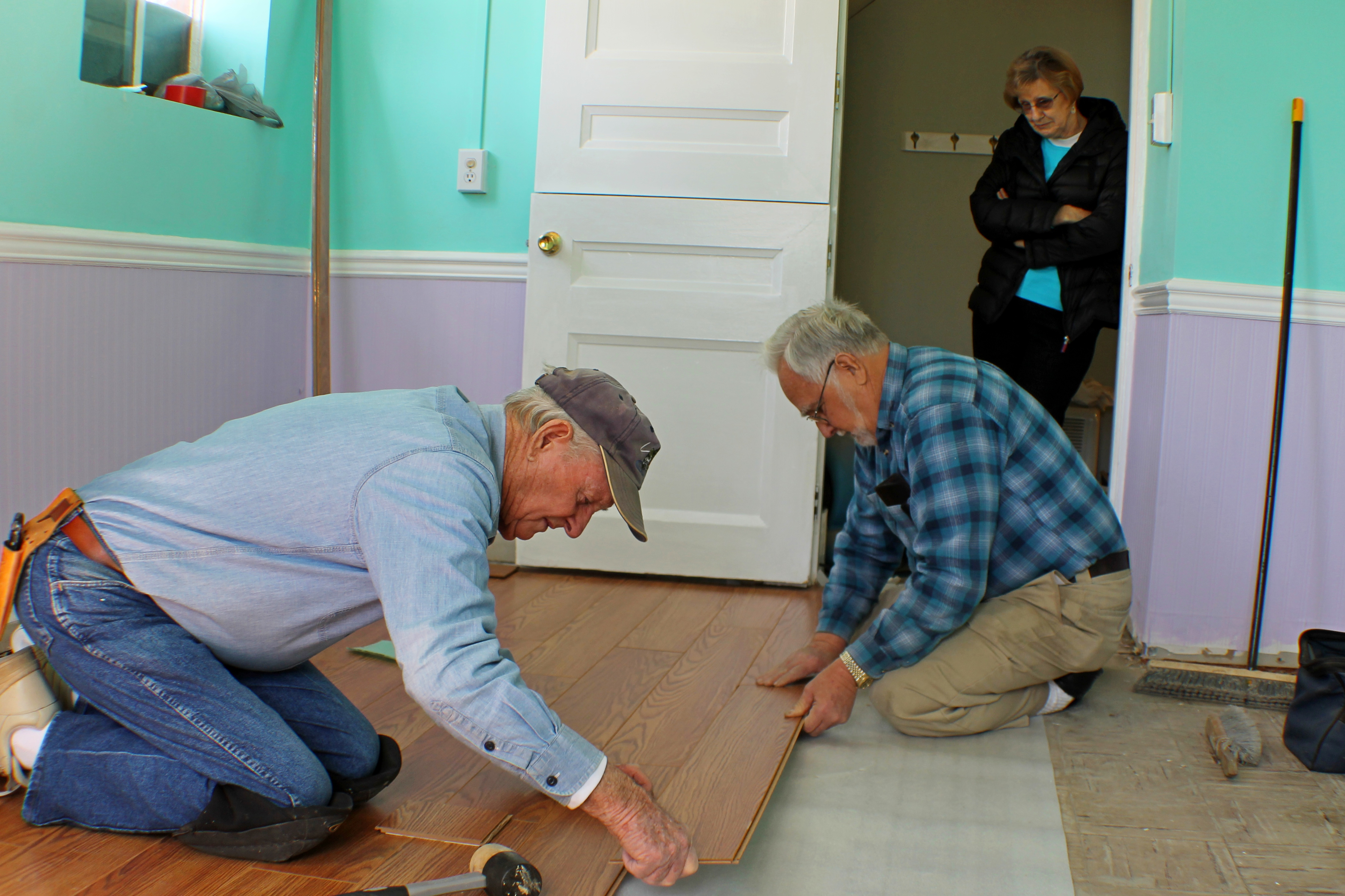 Close up of laminate floor assembly showing tongue and groove, underlay, and method if squaring and distancing from wall.